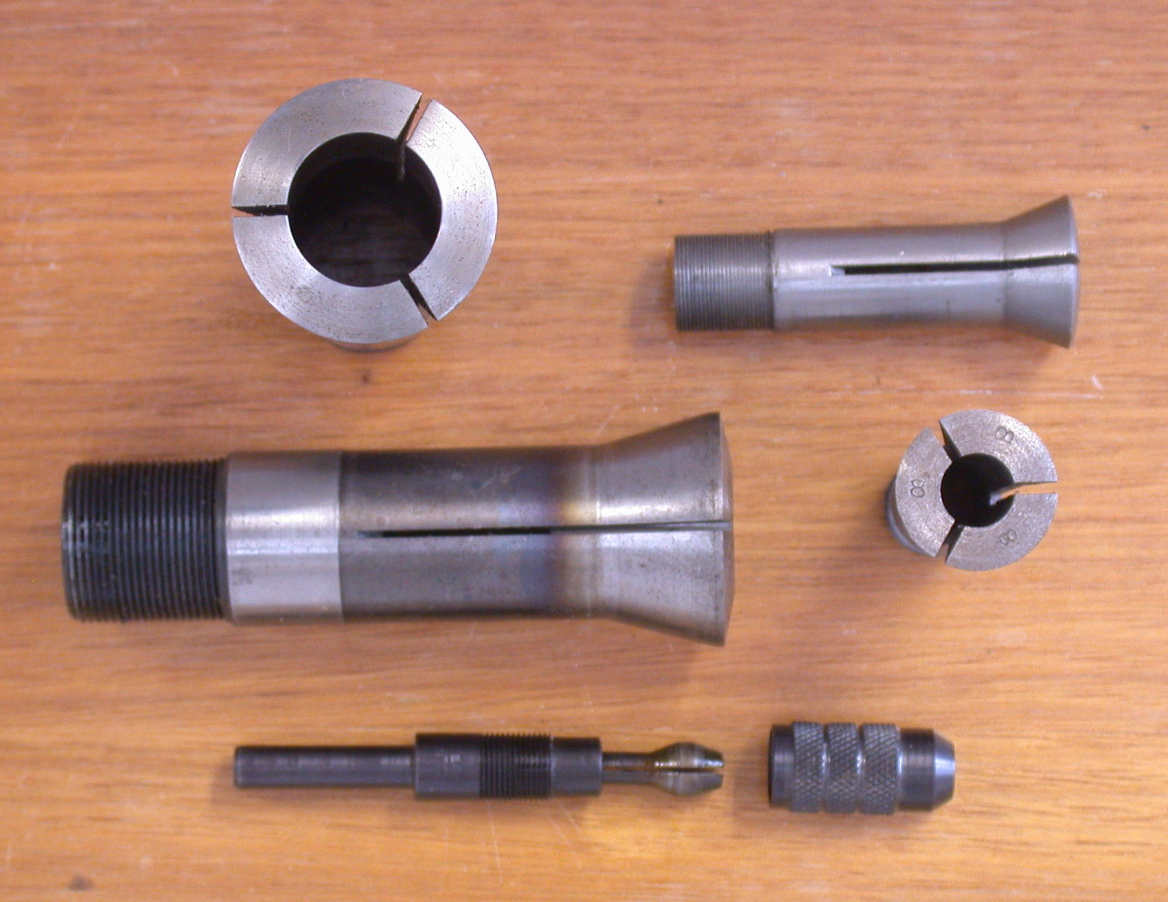 Various examples of machine collets, end and side views